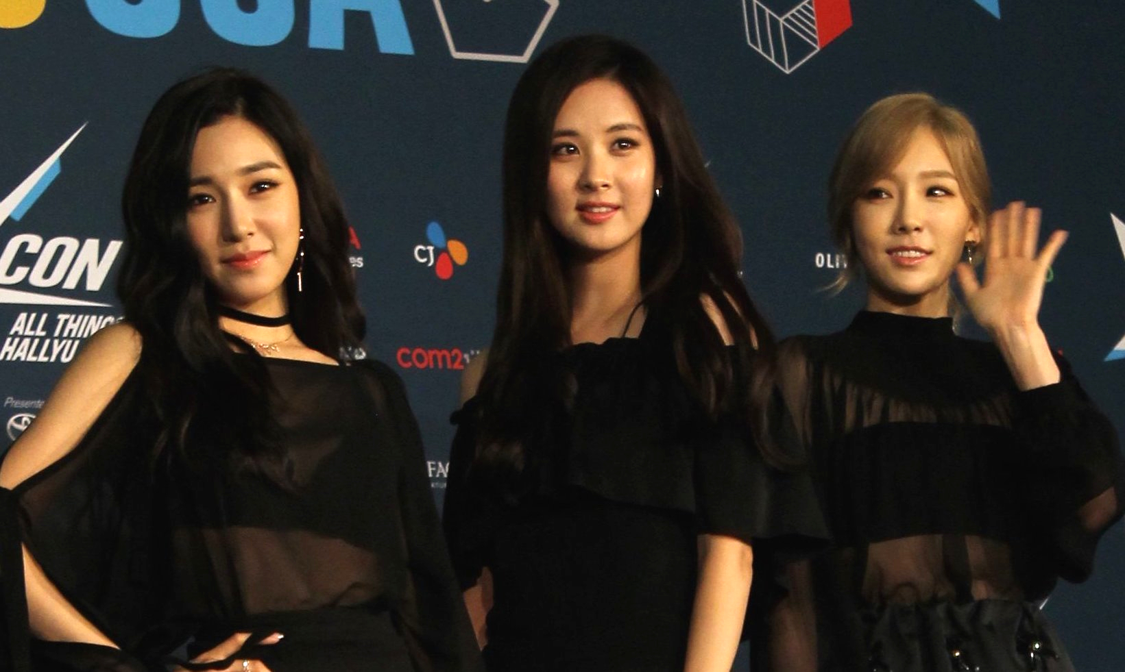 Girls Generation TTS at the KCON LA 2016 Red Carpet